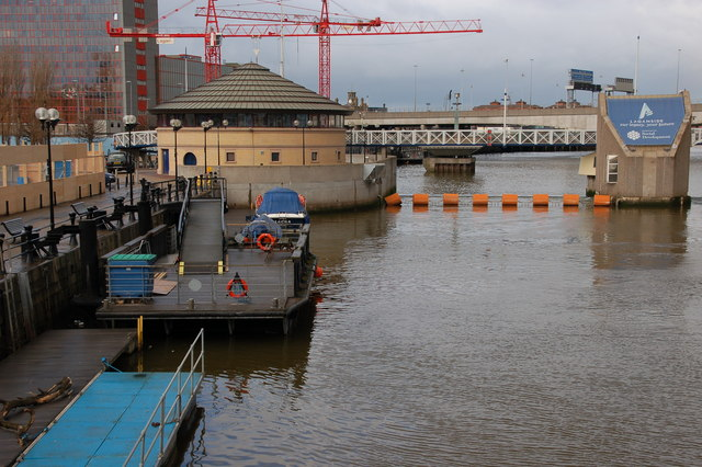 Donegall Quay, Belfast (2007) See 347520. This is Donegall Quay which, before redevelopment, was the terminus for the freight-only ferry service to Heysham. It had once handled passenger ferries to Liverpool, Heysham and Fleetwood. The pontoon (middle left) is used by the boat operating trips upstream on the Lagan. The weir is controlled from the circular building behind the pontoon. See also 347559 or continue to 888956.